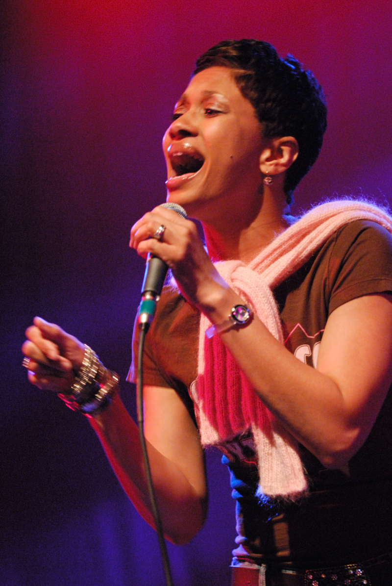 Jean Baylor of Zhané performing at the Black Lily Film & Music Festival 2007.